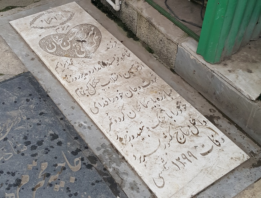 Soleiman Darab